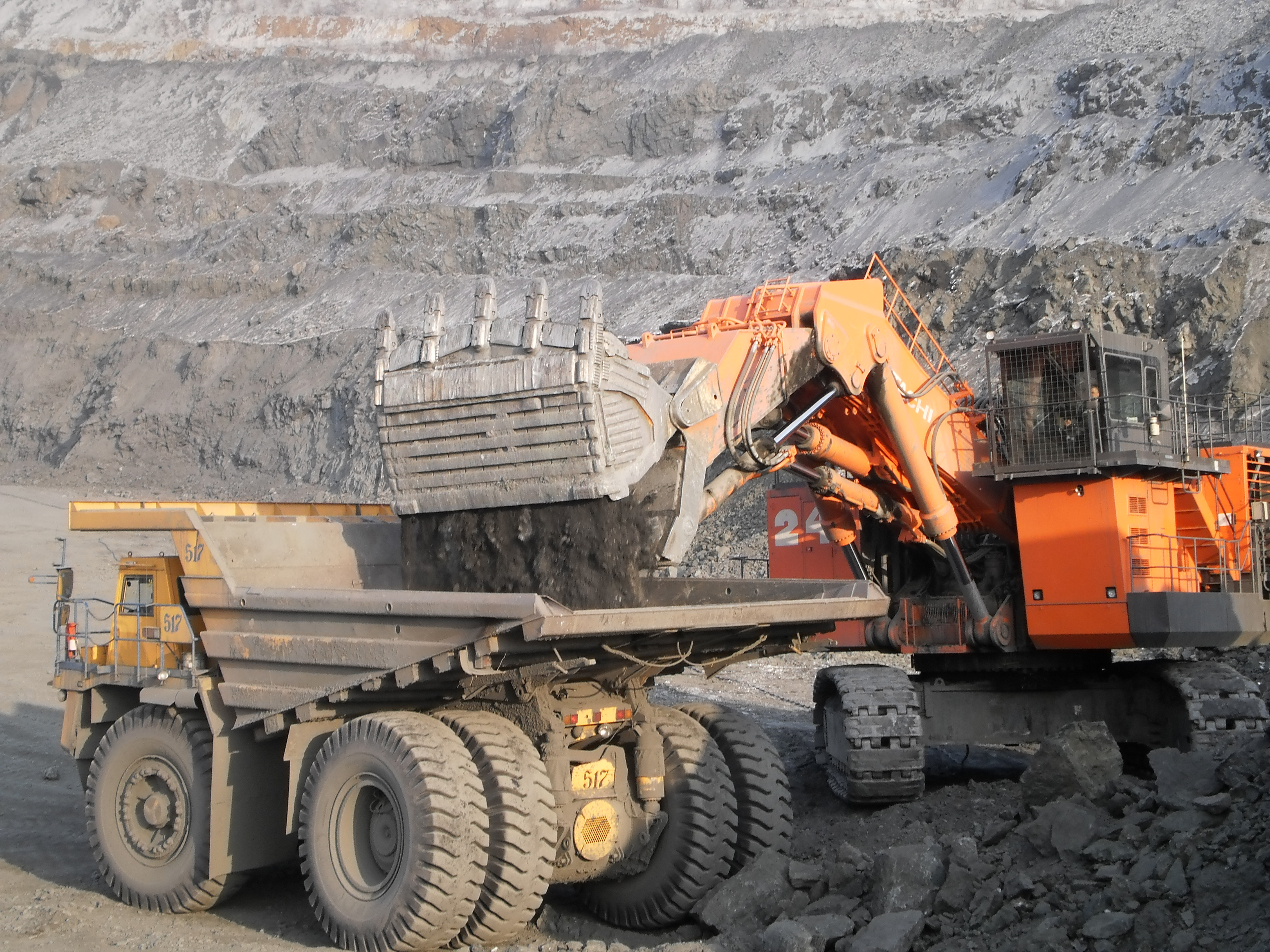 A Hitachi mining excavator dumps material in a Belaz haul truck.